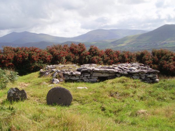 Ancient Christian site (Lathair Luathre Chriostai) This site is on the flank of a hill with commanding view towards the mountains in the east. The structure can be entered, but is very low. In the foreground is a disc with carving on it.